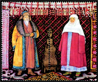 Stamp of Kazakhstan